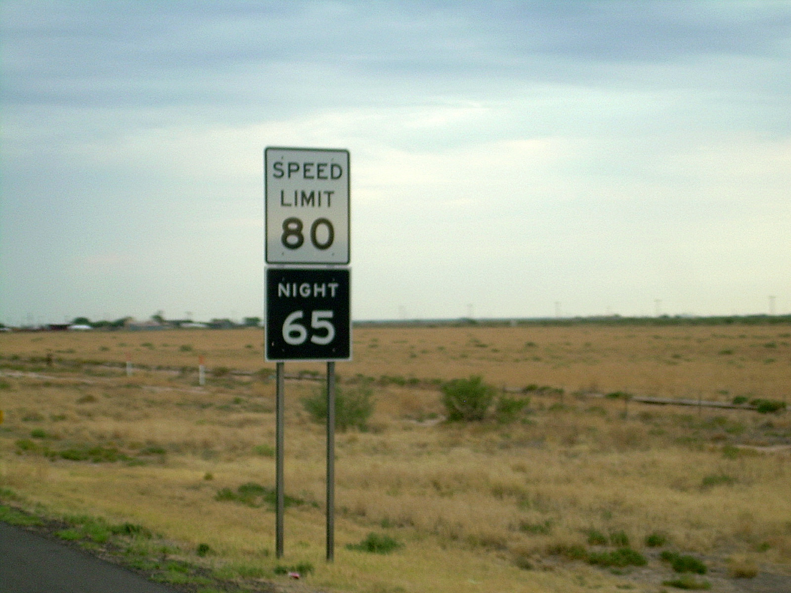 Speed limit sign along Interstate 20 in western Texas.